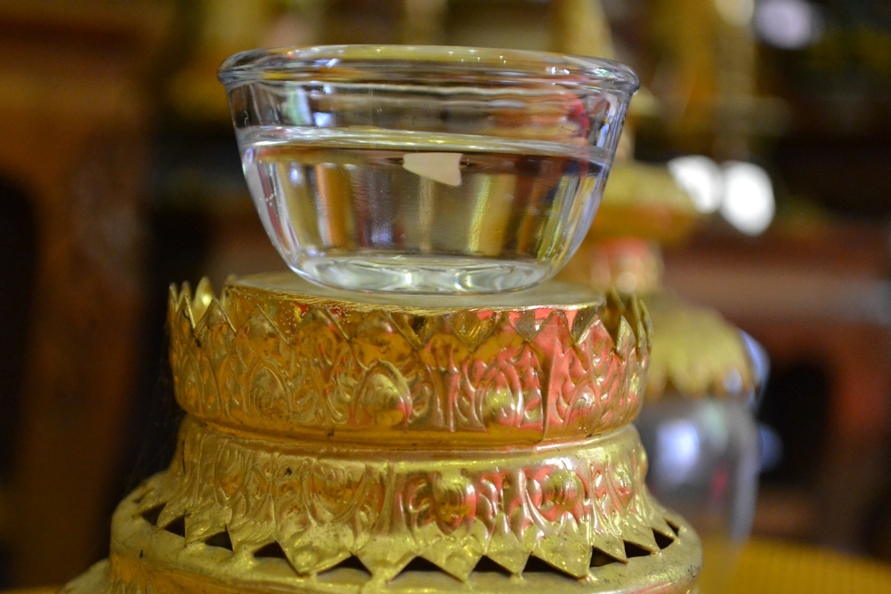 Buddhist relics from His Holiness Supreme Patriarch of Thailand in Wat Khung Taphao, Ban Khung Taphao, Khung Taphao subdistrict, Mueang Uttaradit, Uttaradit Province, Thailand.